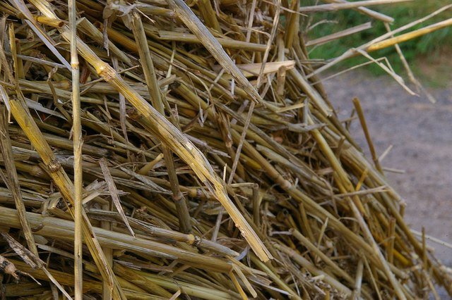 Straw (part of a round straw bale) on Earls Hall Farm